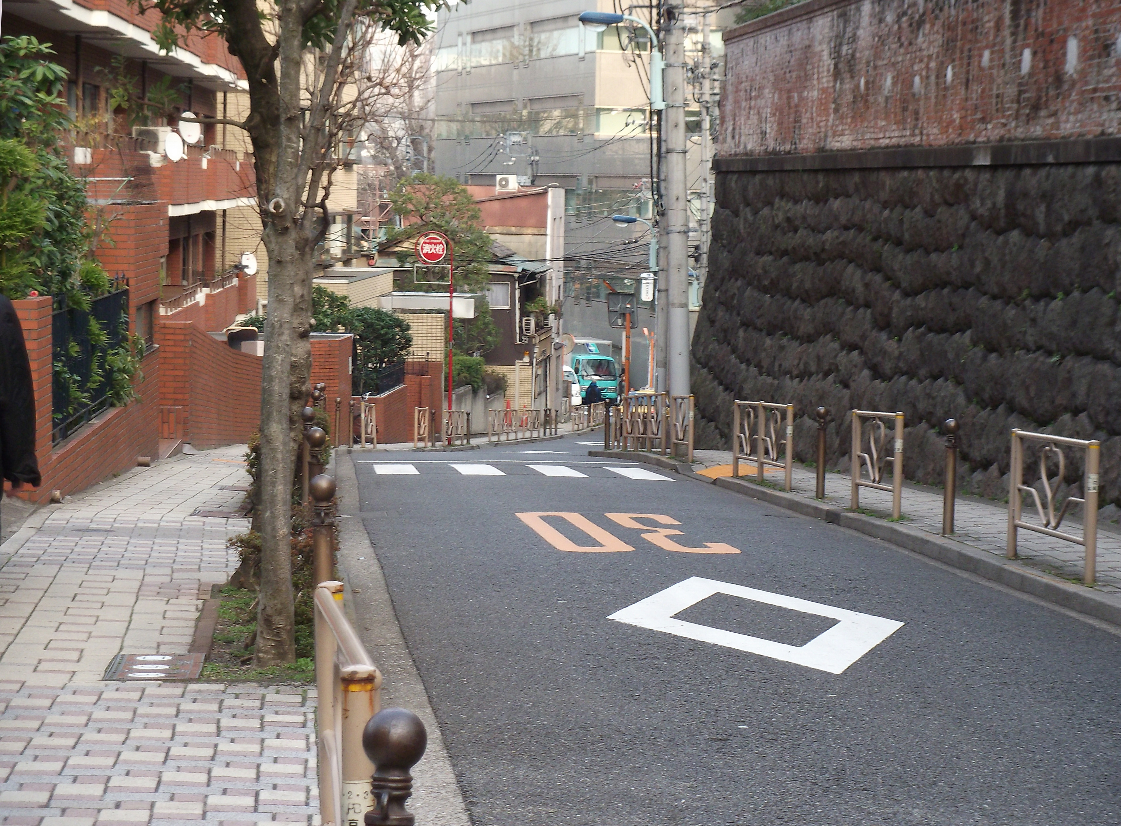 Scenery of Muenzaka slope from Yushima, Bunkyo, Tokyo.